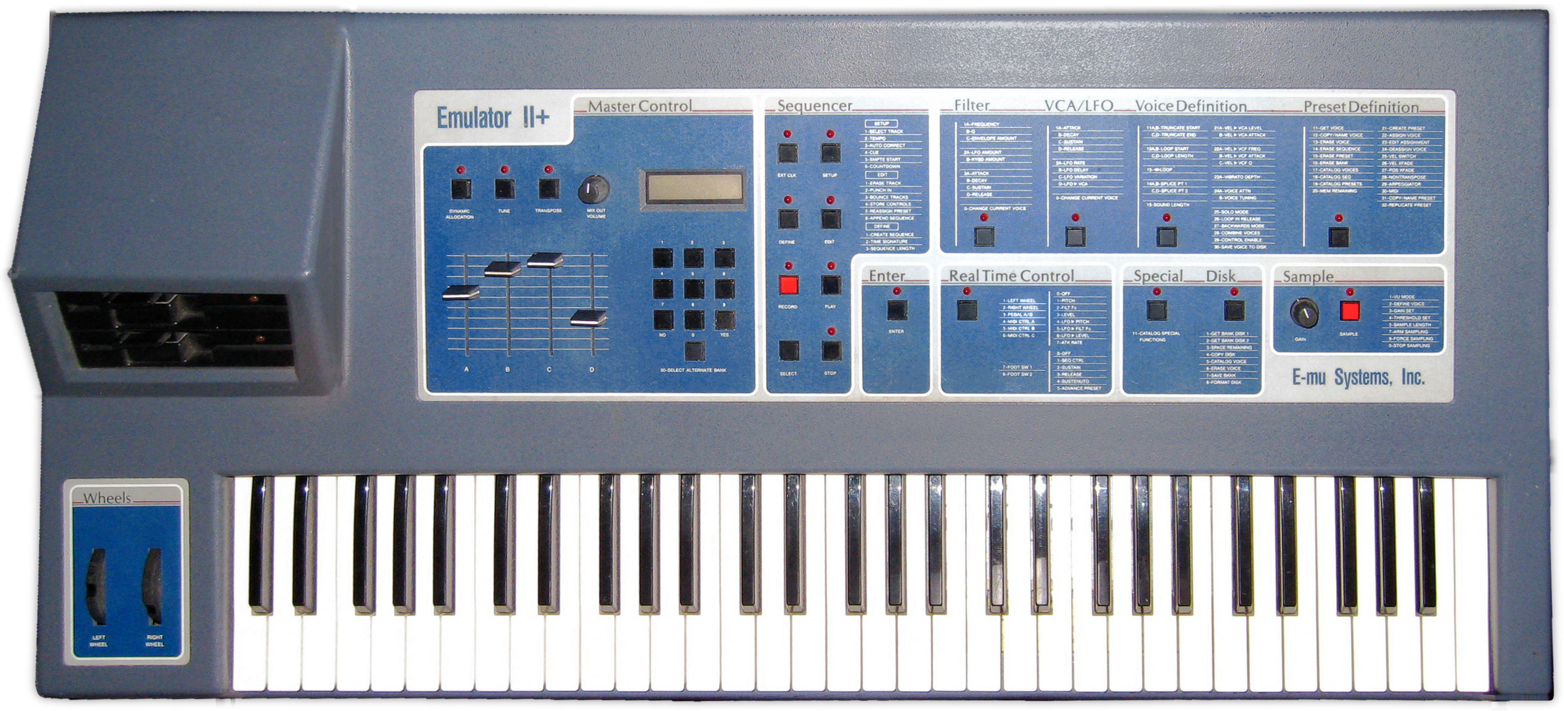 E-mu Emulator II+ — An 8-voice sampler with 24dB analog filters (SSM2045) and envelopes using a compressed 8-bit sampling format, produced in 1984.